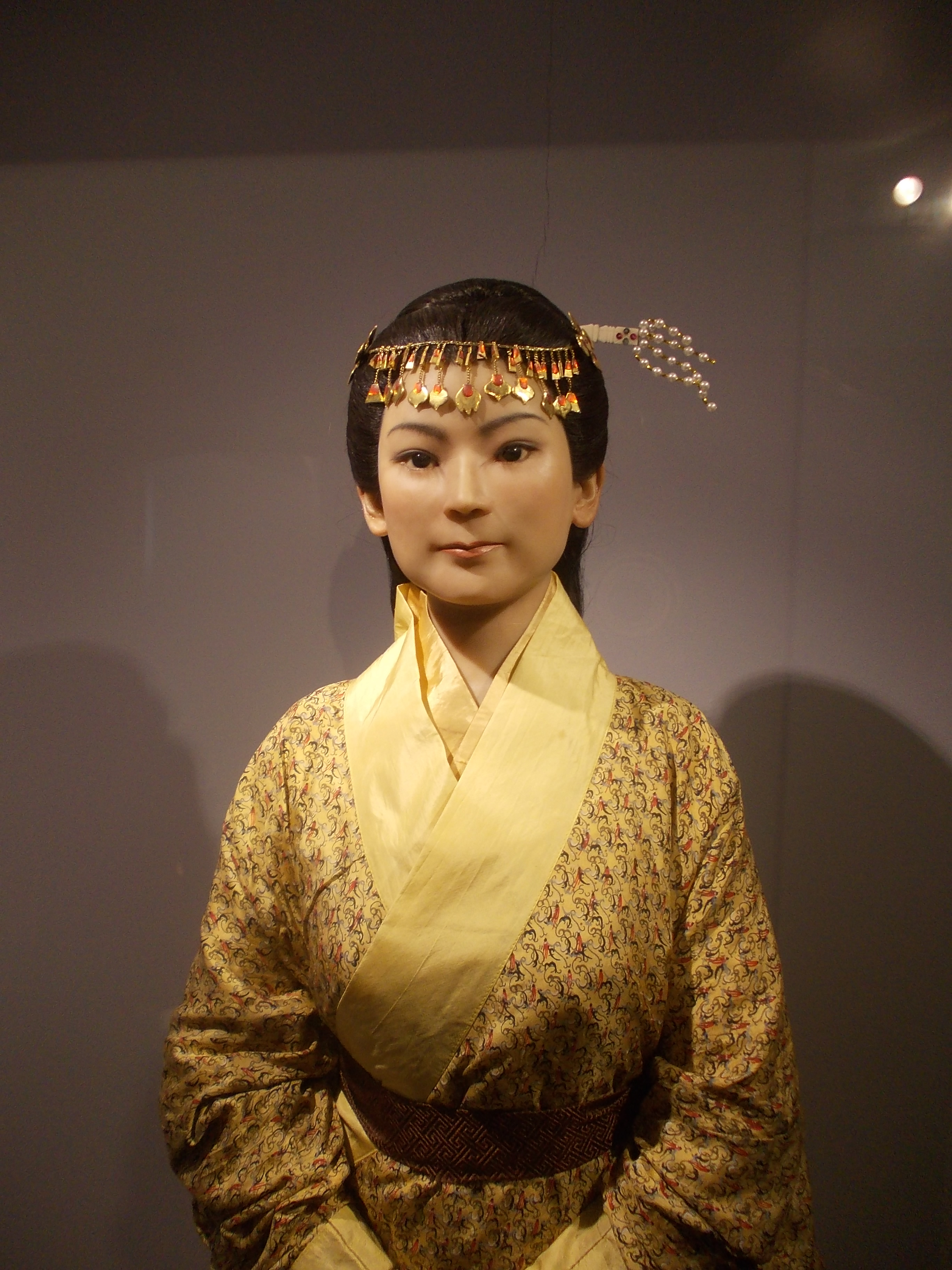 Xin Zhui (Chinese: 辛追), also known as Lady Dai, was the wife of the Marquess Li Cang. Wax reproduction from the cast of her mummy discovered at Mawangdui.